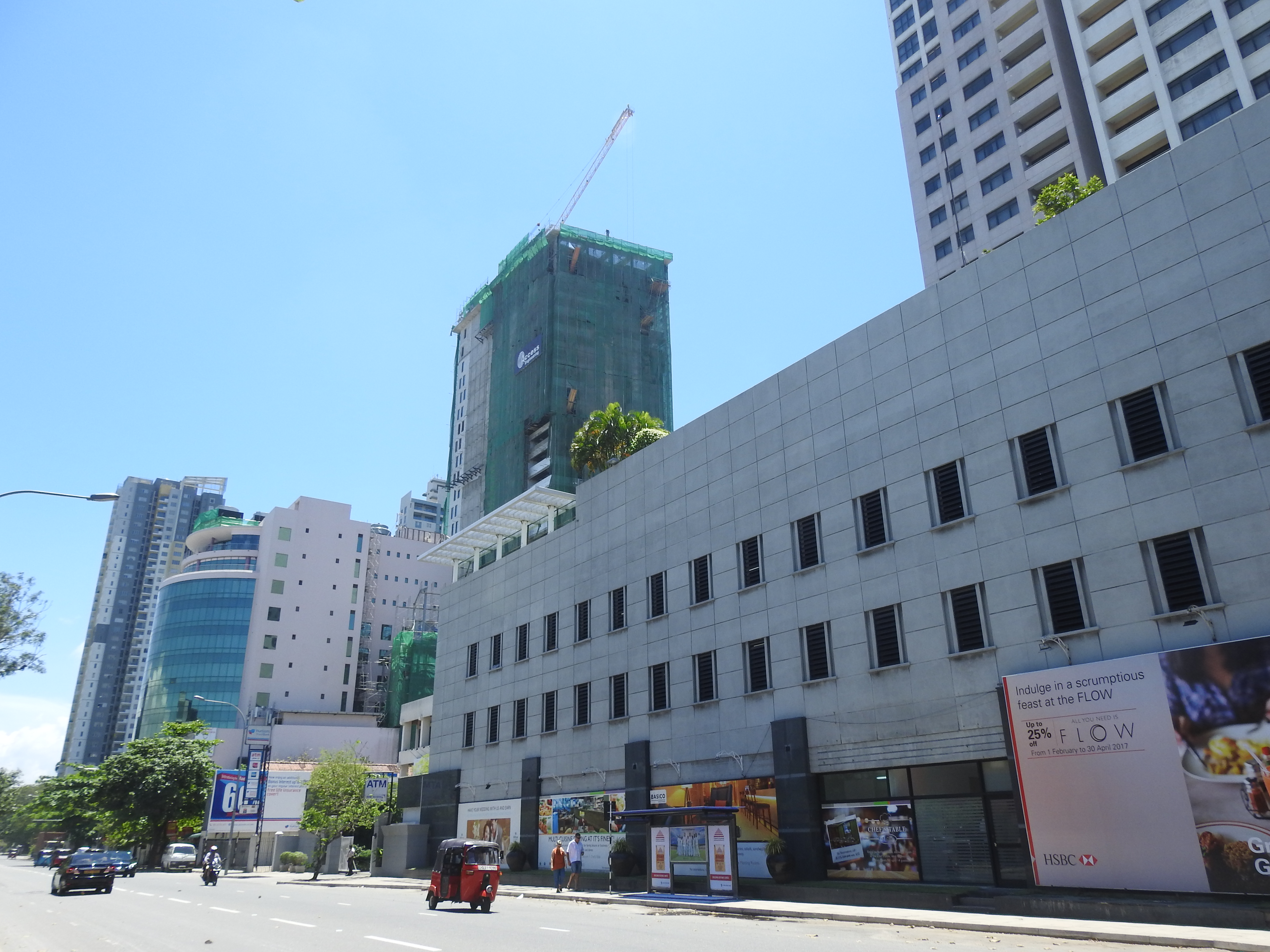 Photos of current/future skyscrapers (and its surroundings) in Colombo, taken by User:Rehman and User:Azeez as part of a photowalk project by Wikimedia Community User Group Sri Lanka. The photowalk covered most of the tallest structures in Colombo that are either completed or under construction. Further information on the subject(s) of the photograph can be found in the category/ies of this file.